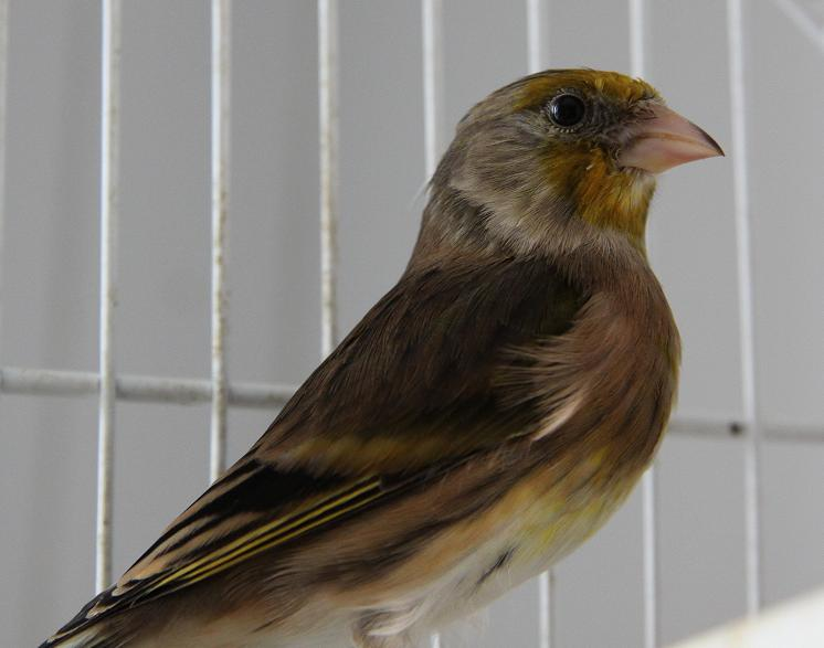 Close-up of a hybrid between a Goldfinch and a Canary. Tarragona, Spain.